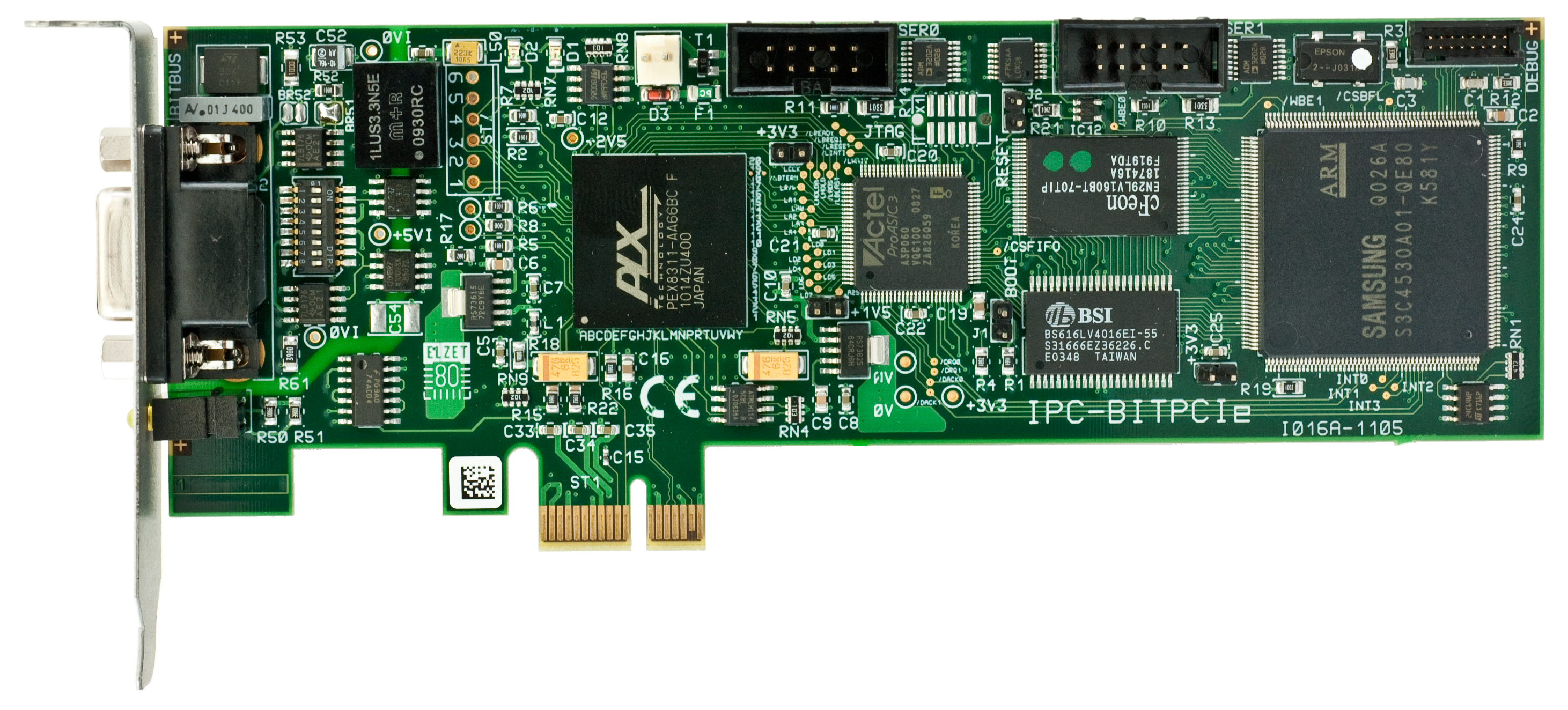 PCI-Express BITBUS-Card mit ARM-CPU